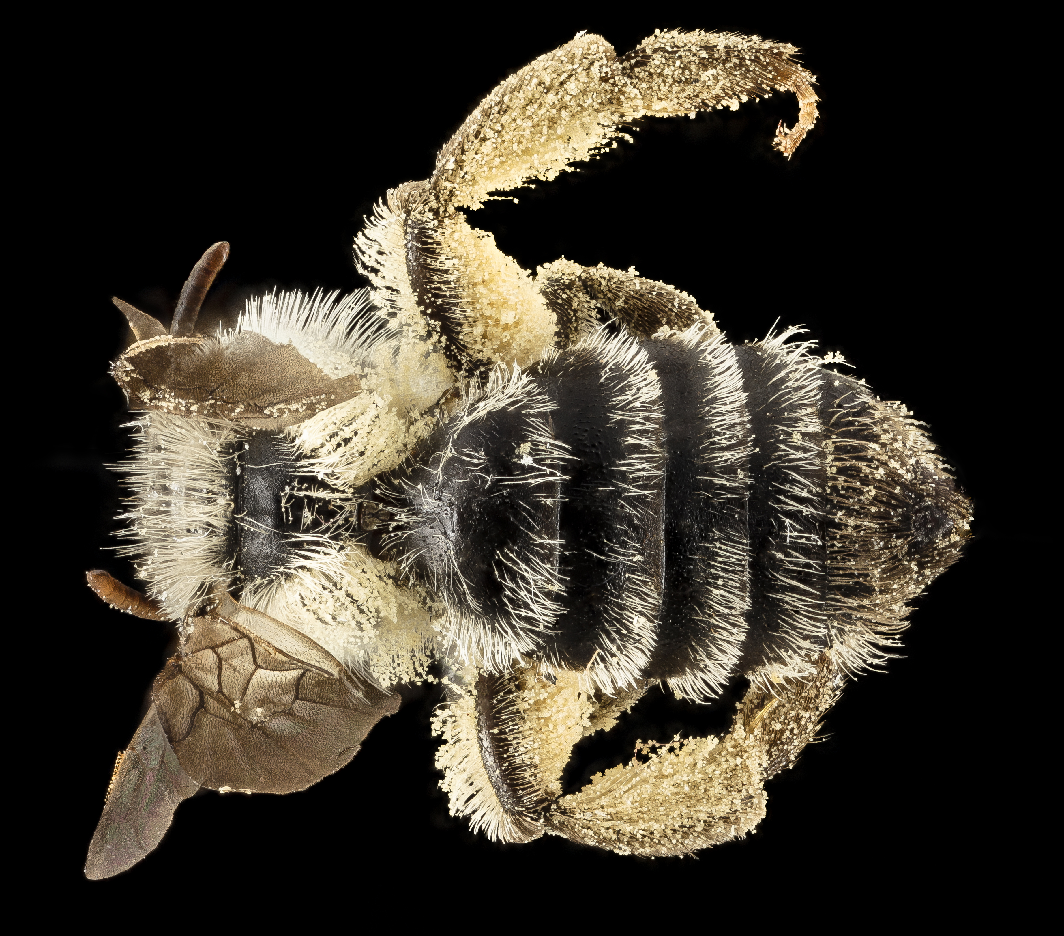 Andrena specularia - This is a prairie bee. I know that because it is from North Dakota and there are no records that I know of east of the Mississippi River. In fact, there are no legit records outside of North Dakota. Other than the mysterious Turtle Mountains, ND is all about prairie. I would like to propose that this become the state's bee. Collected by the fabulous Elaine Evans. Photographs by Brooke Alexander. 21:51, 4 February 2017 (UTC)21:51, 4 February 2017 (UTC) 0 21:51, 4 February 2017 (UTC)21:51, 4 February 2017 (UTC) All photographs are public domain, feel free to download and use as you wish. Photography Information: Canon Mark II 5D, Zerene Stacker, Stackshot Sled, 65mm Canon MP-E 1-5X macro lens, Twin Macro Flash in Styrofoam Cooler, F5.0, ISO 100, Shutter Speed 200 Beauty is truth, truth beauty - that is all Ye know on earth and all ye need to know " Ode on a Grecian Urn" John Keats You can also follow us on Instagram - account = USGSBIML Want some Useful Links to the Techniques We Use? Well now here you go Citizen: Art Photo Book: Bees: An Up-Close Look at Pollinators Around the World Basic USGSBIML set up: USGSBIML Photoshopping Technique: Note that we now have added using the burn tool at 50% opacity set to shadows to clean up the halos that bleed into the black background from "hot" color sections of the picture. PDF of Basic USGSBIML Photography Set Up: ftp://ftpext.usgs.gov/pub/er/md/laurel/Droege/How%20to%20Take%20MacroPhotographs%20of%20Insects%20BIML%20Lab2.pdf Google Hangout Demonstration of Techniques: or Excellent Technical Form on Stacking: Contact information: Sam Droege 301 497 5840